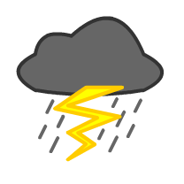 cloud, rain, lightning, weather forecast symbol